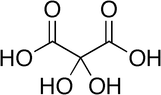 chemical structure of mesoxalic acid